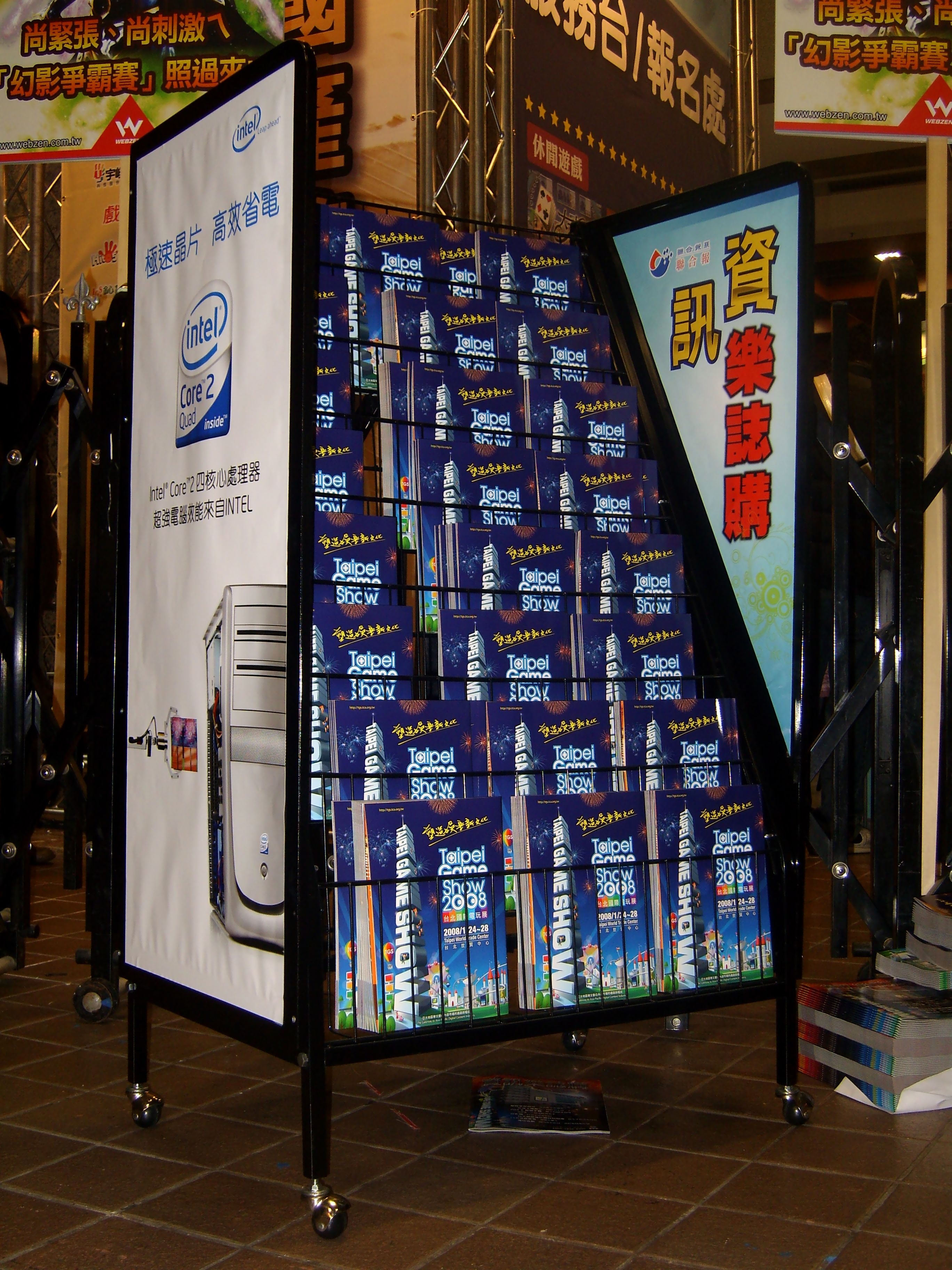 2008 Taipei Game Show: A shelf filled with brochures by United Daily News.